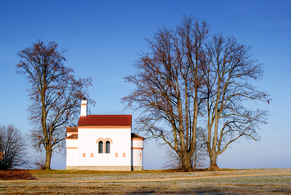 Zdimerice chapel